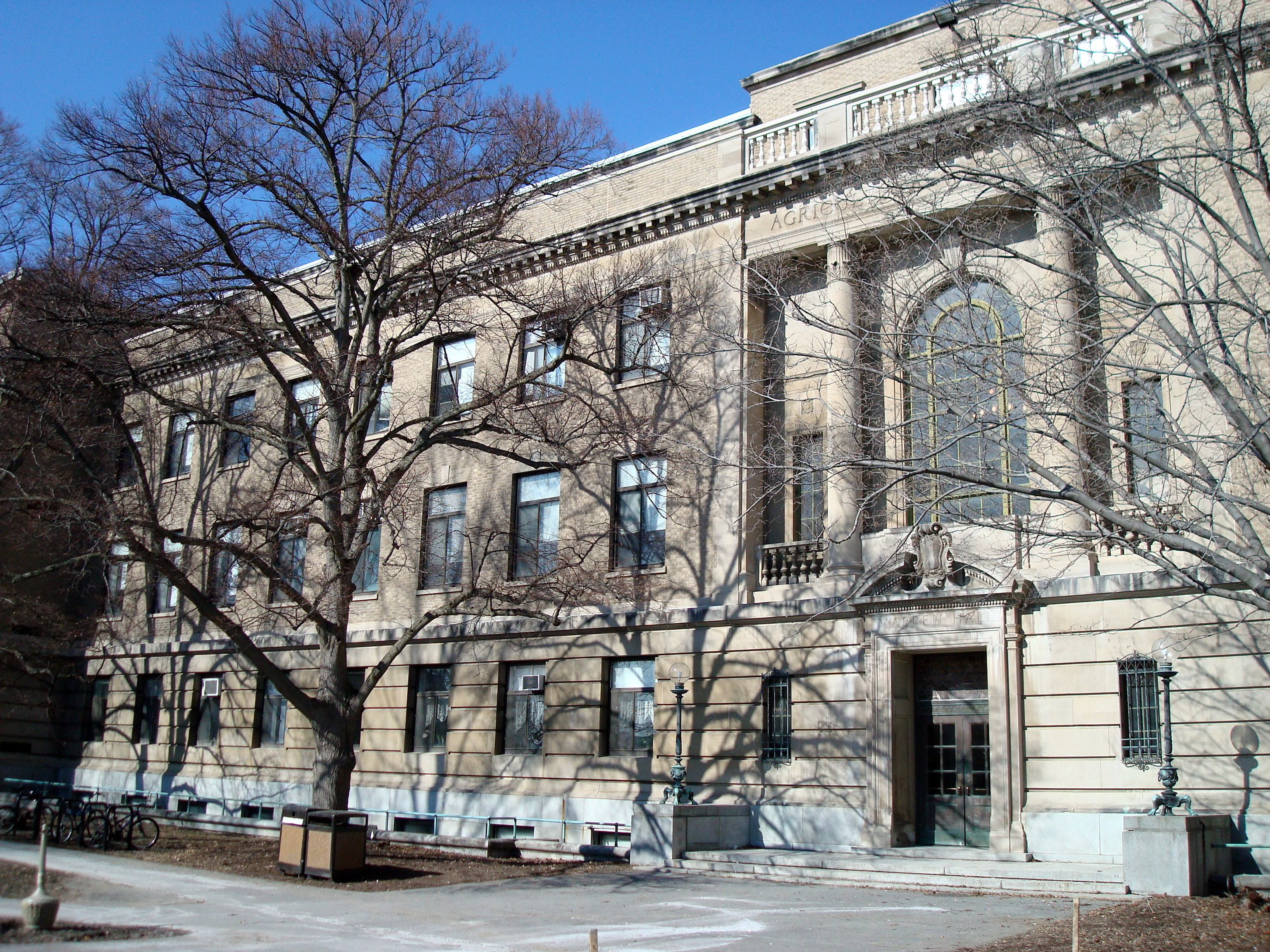 Warren Hall at Cornell University.